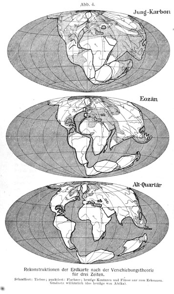 This map shows how the continents drifted apart.